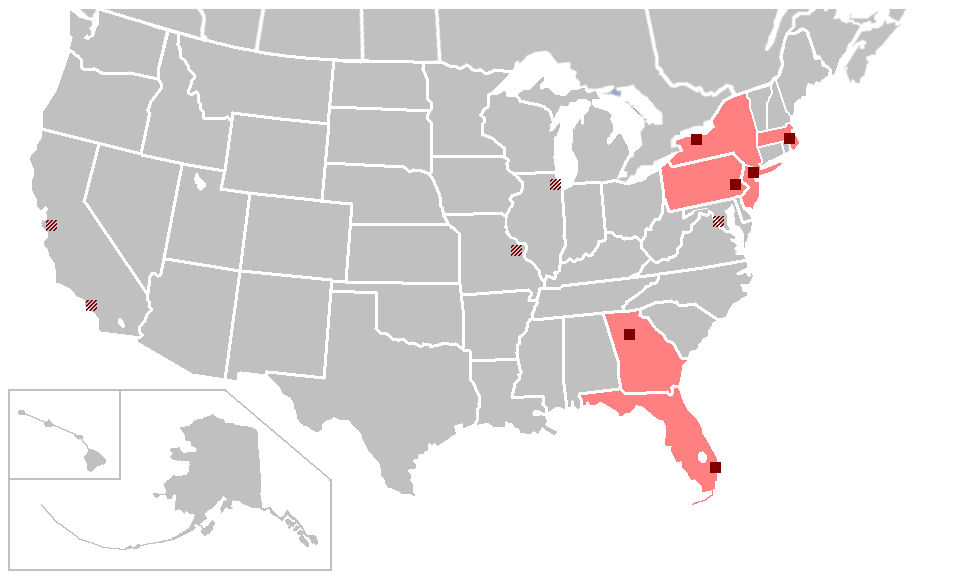 Women's Professional Soccer 2011 participants